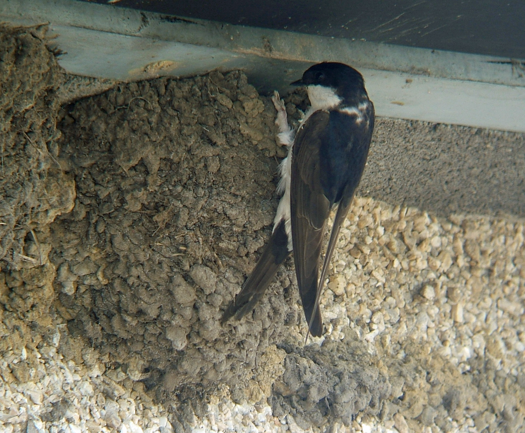 House Martin (Delichon urbicum), West Woodburn, Northumberland, UK. Coordinates intentionally inaccurate (±300 m) to protect privacy of house owner.